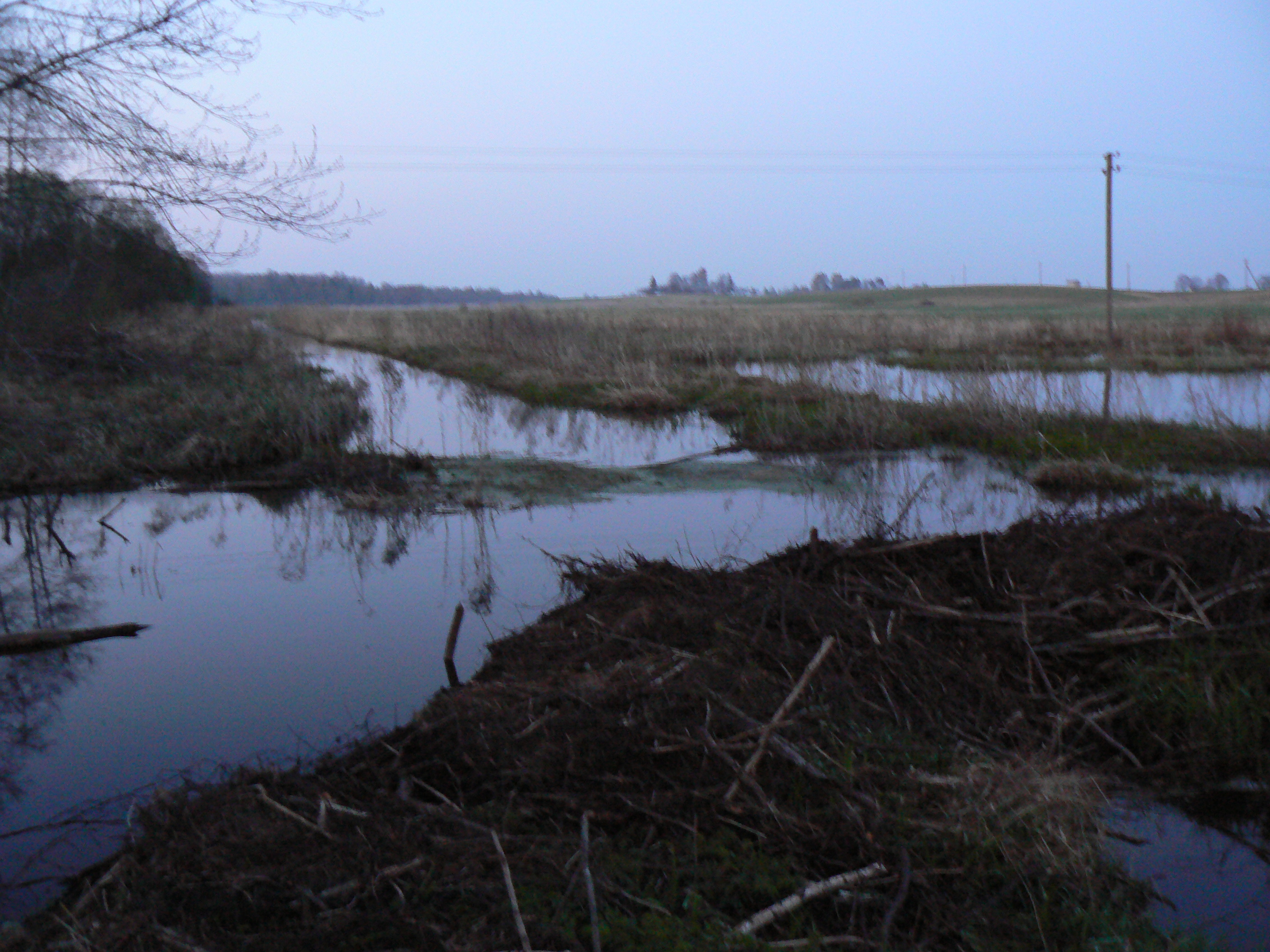 Beaver dam on Luknė near village Luknės Česky: Bobří hráz na řece Luknė u vsi Luknės. Foto z mostku na LT/LV hranici.